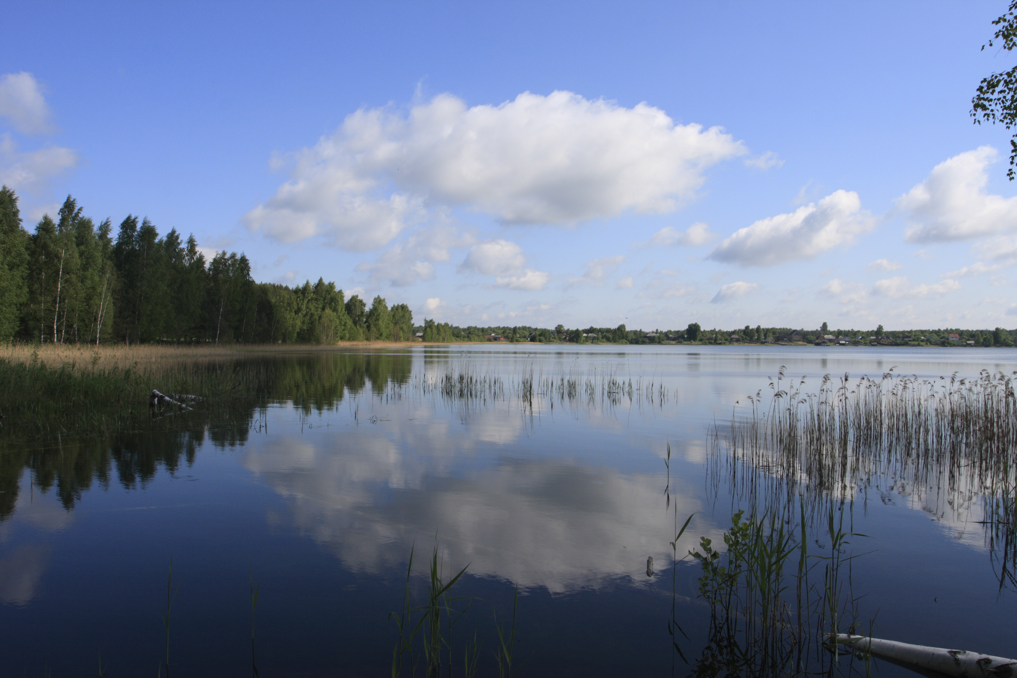 White lake in Klepikovsky District of Ryazan Oblast (northern)